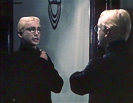 Narcissus in Vienna